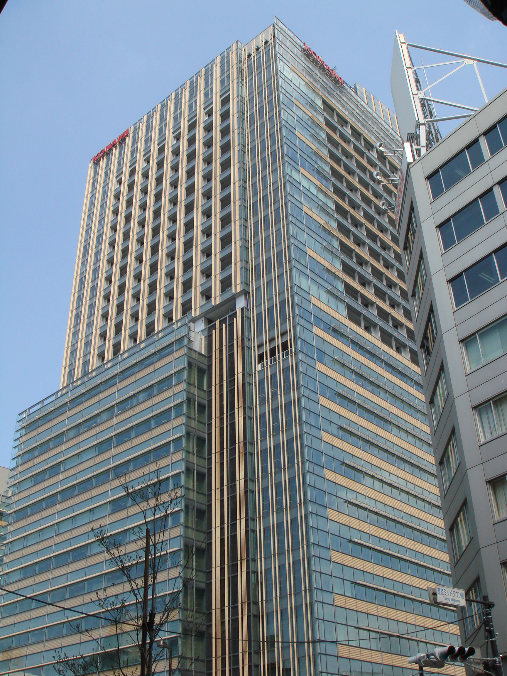 Tokyo Midtown East building overview.